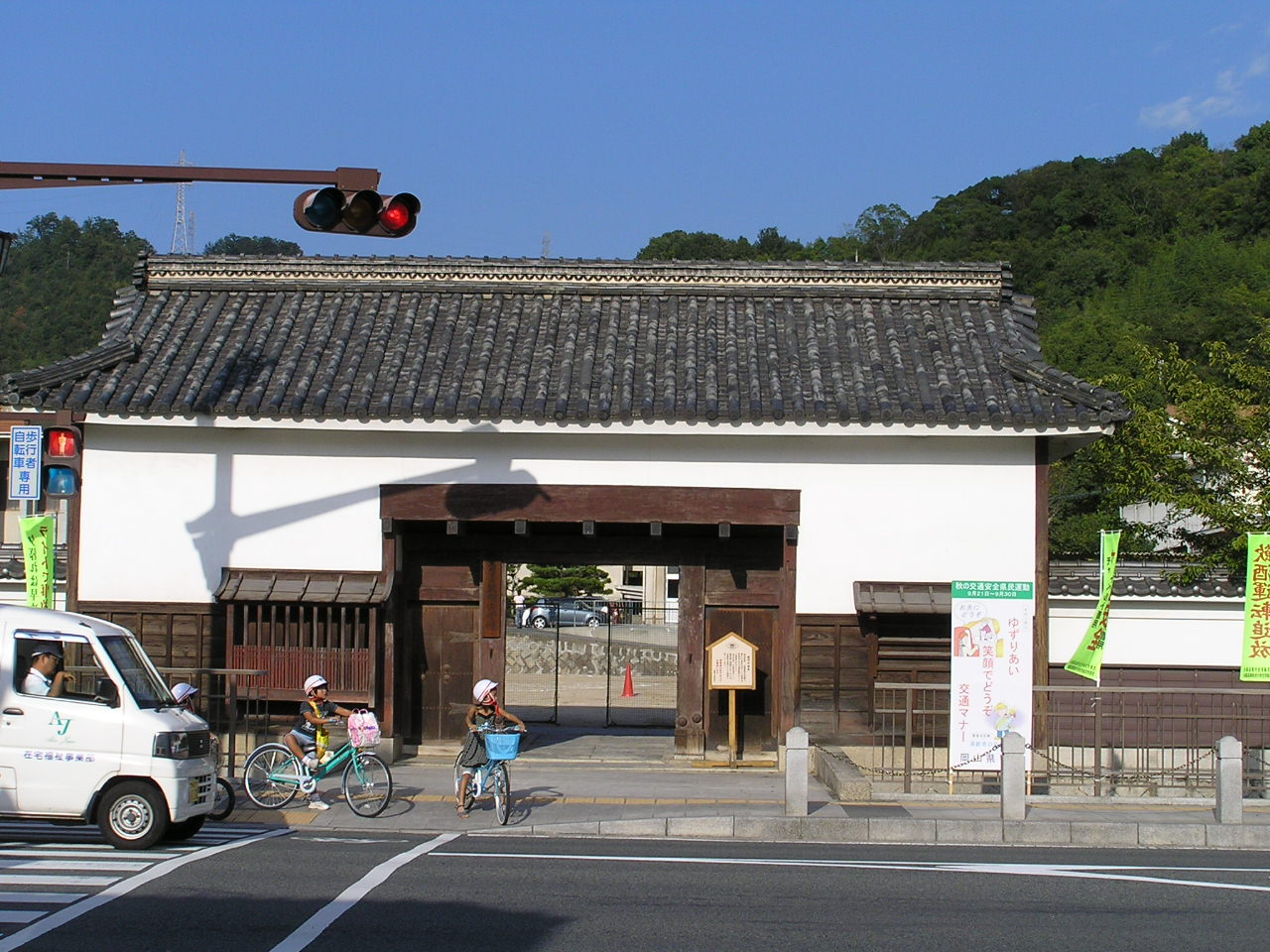 the site of oda prefrecture